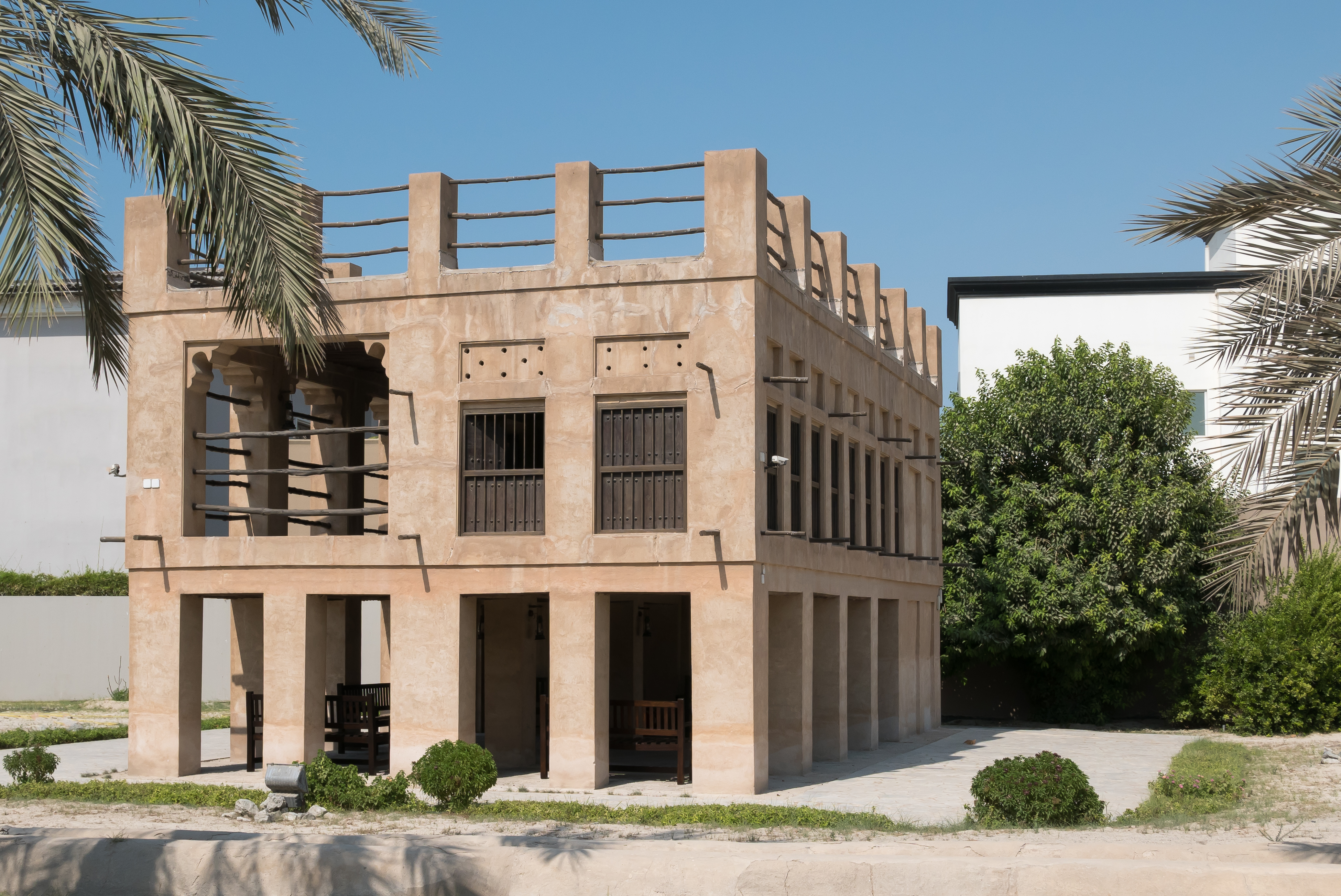 Um Suqeim Majlis This is a monument in the United Arab Emirates identified by the ID D-14